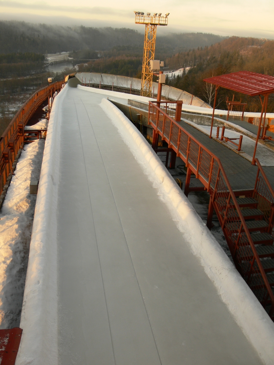 On top of bobsleigh track in Sigulda, Latvia. Read more on Latvian blog with information about Latvia